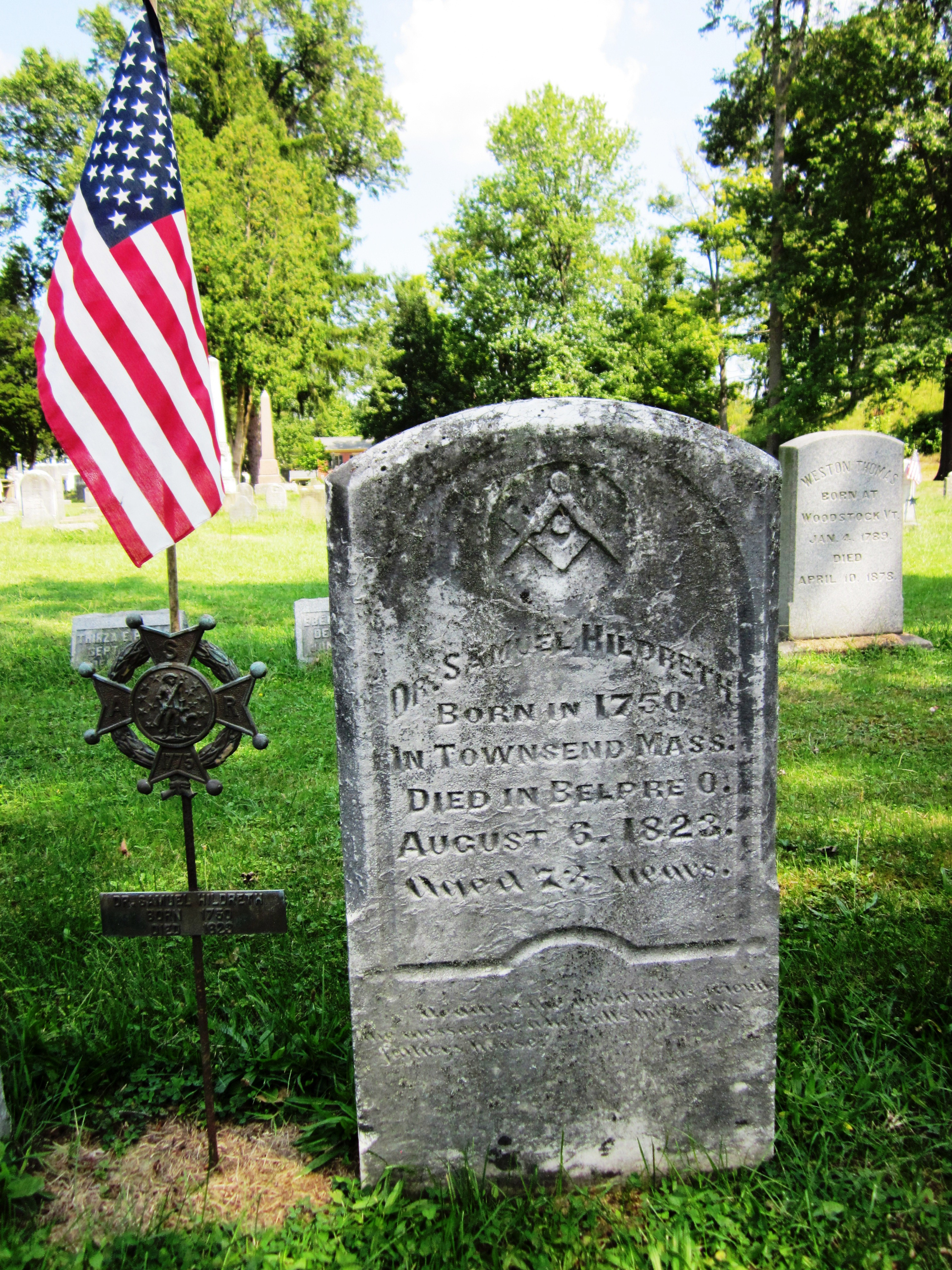 The Samuel Hildreth marker, Mound Cemetery (Marietta, Ohio), September 2012. I took this photograph and I hereby release to the public domain. ColWilliam (talk) 21:43, 12 September 2012 (UTC) Other information The Samuel Hildreth marker, Mound Cemetery (Marietta, Ohio), September 2012. I took this photograph and I hereby release to the public domain. ColWilliam (talk) 21:43, 12 September 2012 (UTC)